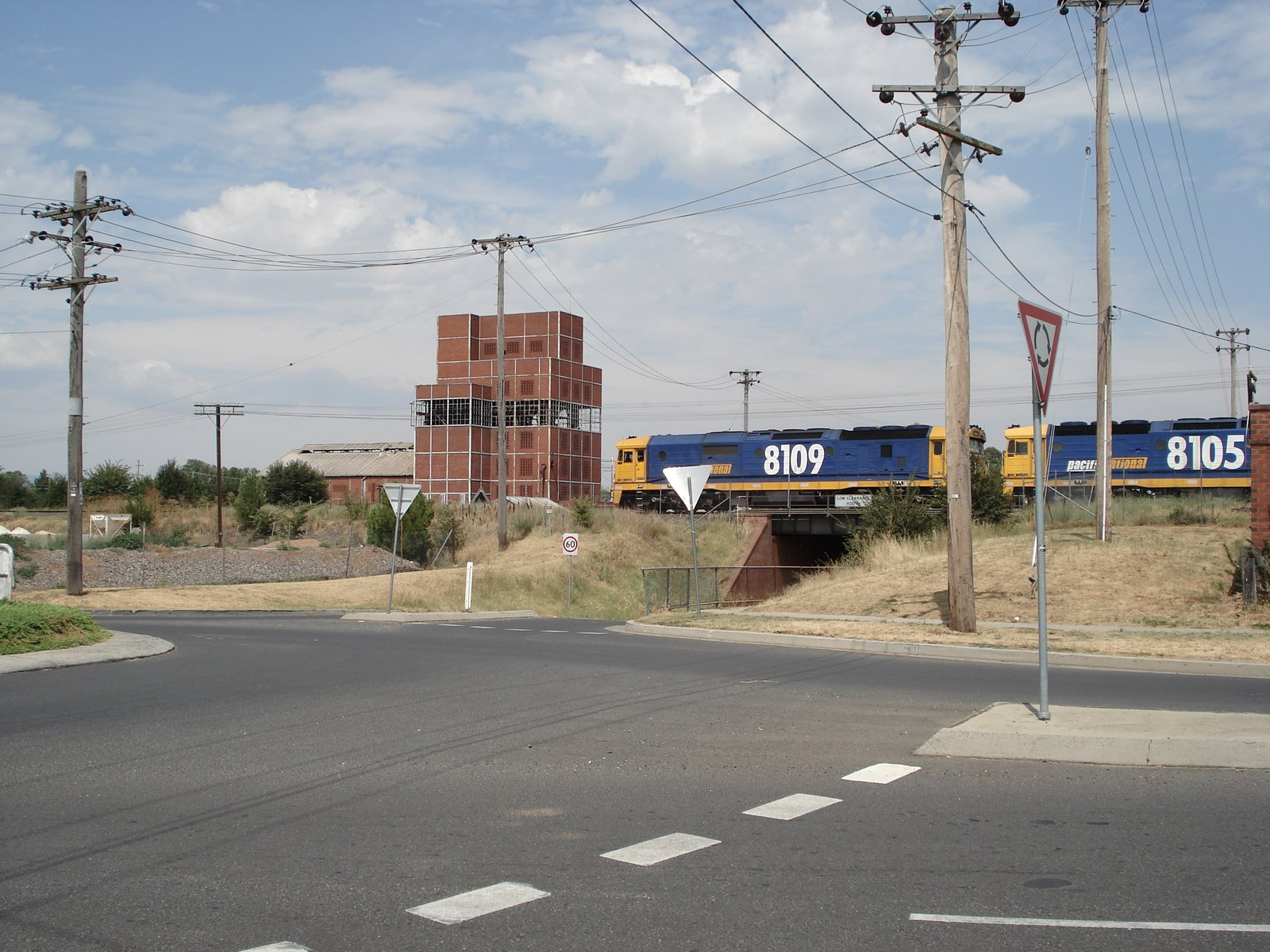 Freight train headed by two recently painted new Pacific National livery eighty-ones departing up from Bathurst